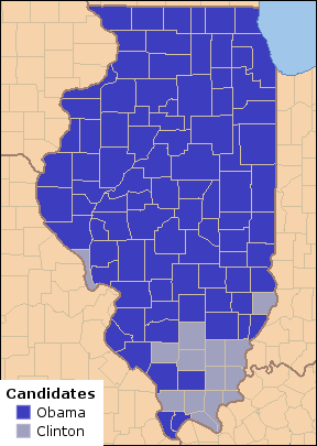 Map of Democratic results in the Illinois Democratic primary